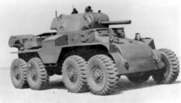 T18E2 armored car.